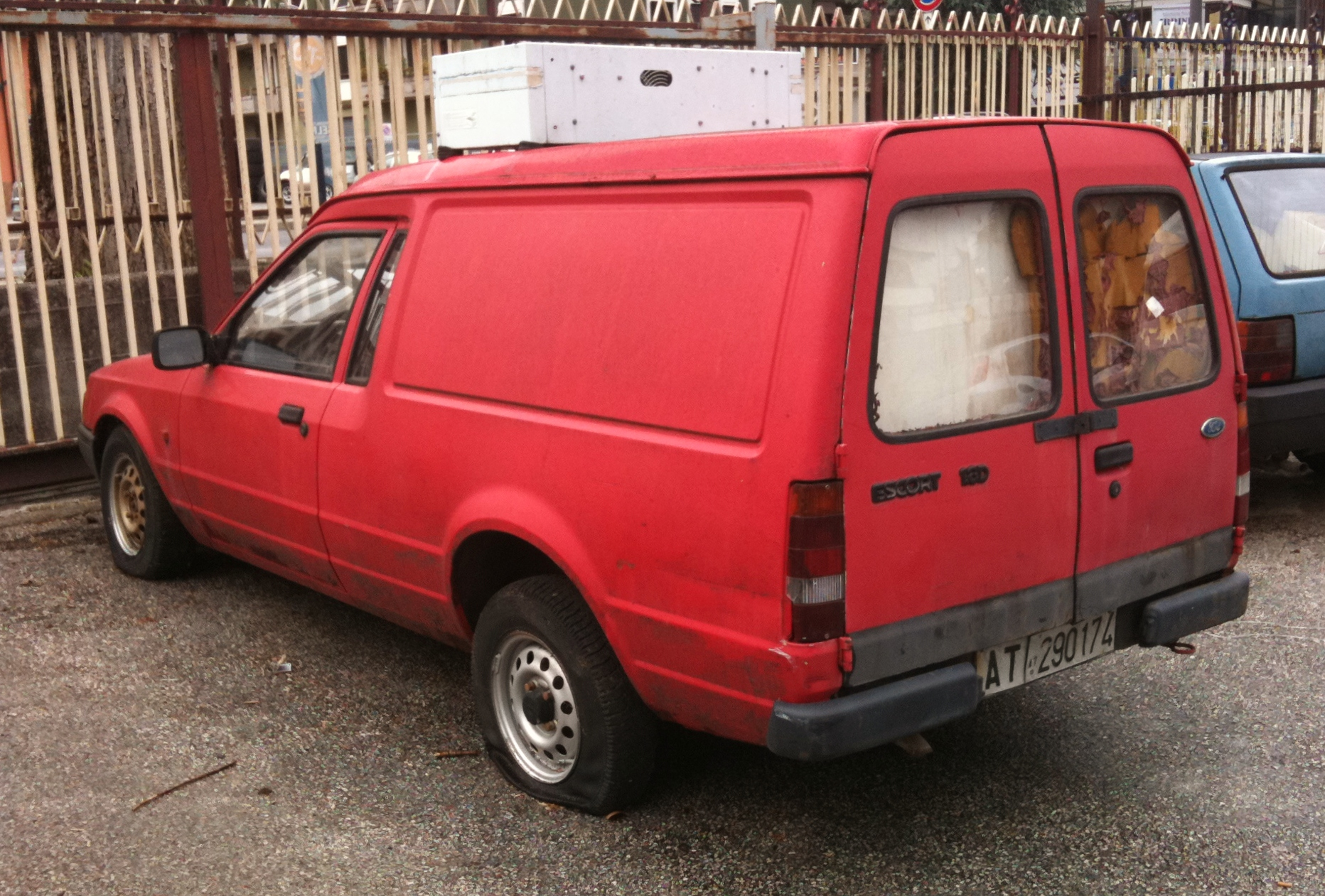 a red Escort Van IV in Avellino